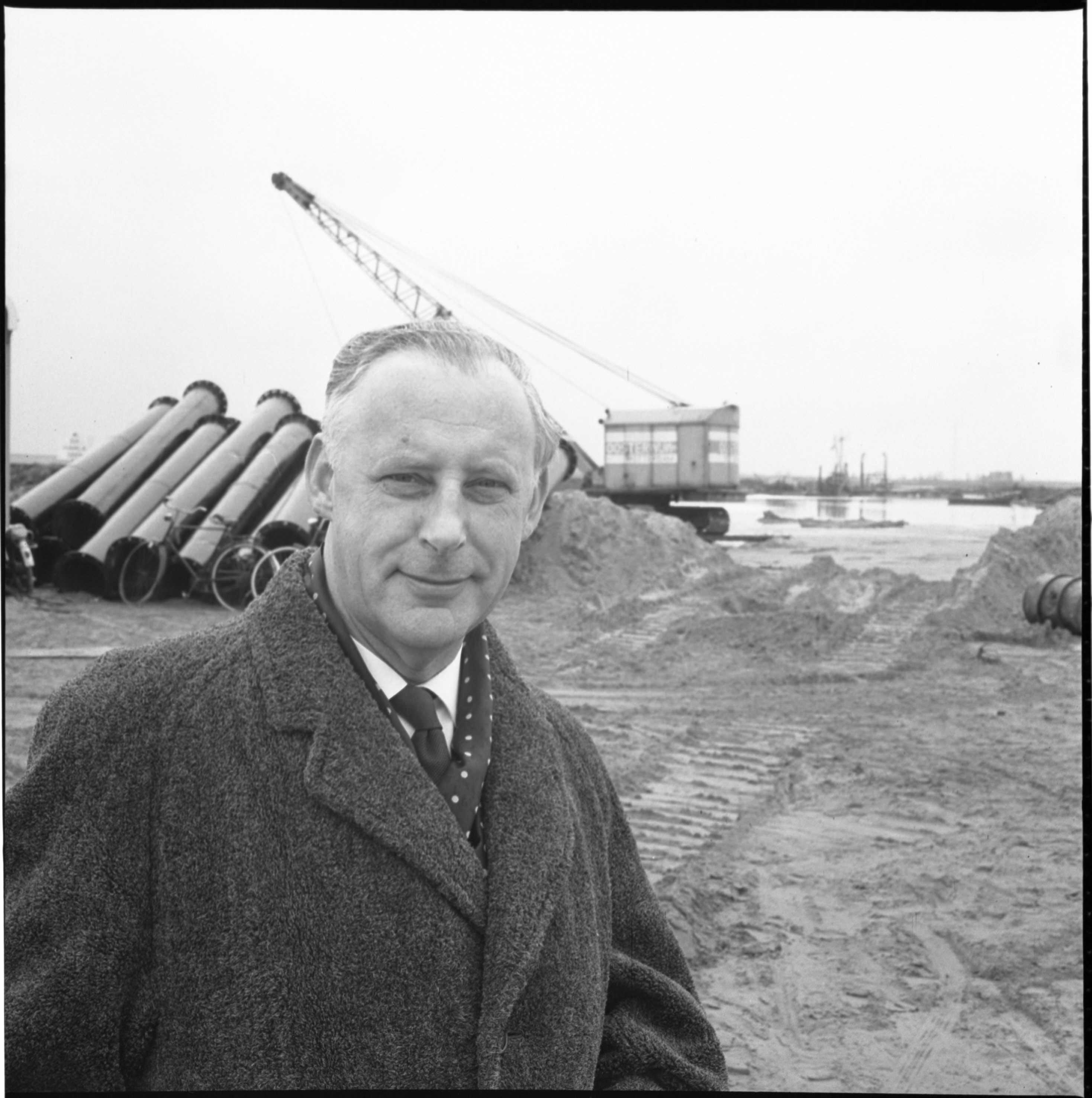 P.J. Bliek, mayor of Spijkenisse and Hekelingen